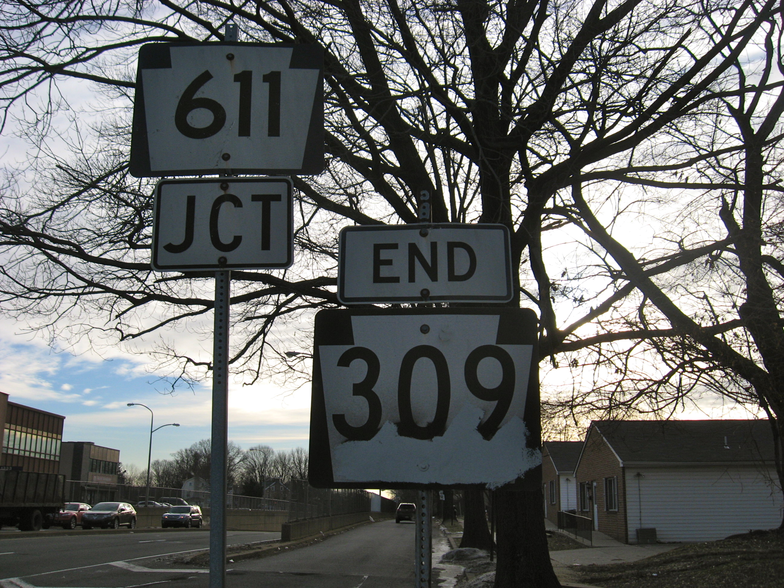 Cheltenham Township